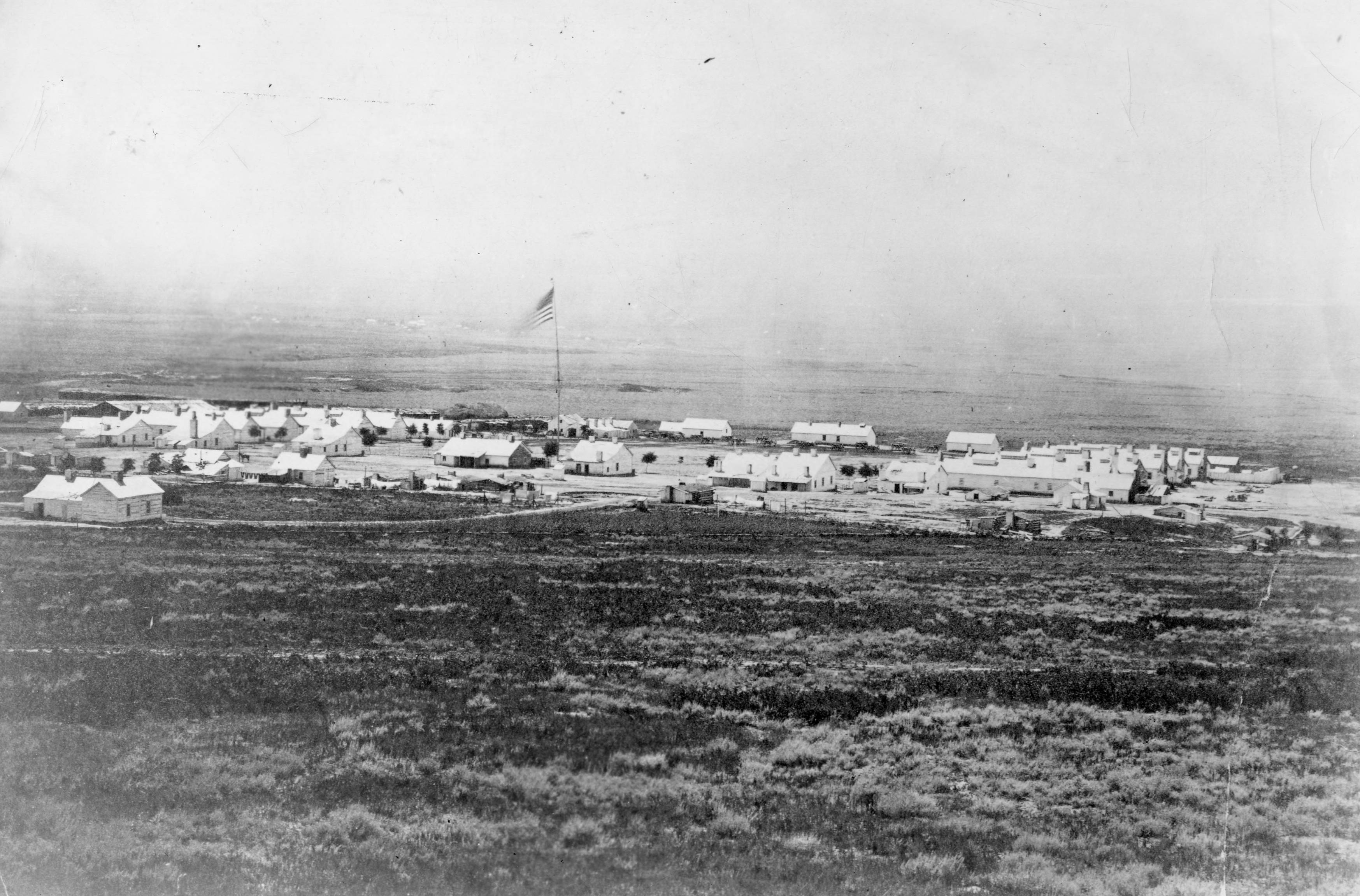 View of Camp Douglas, 1866. Photographer unknown. From Record Group 111, National Archives.